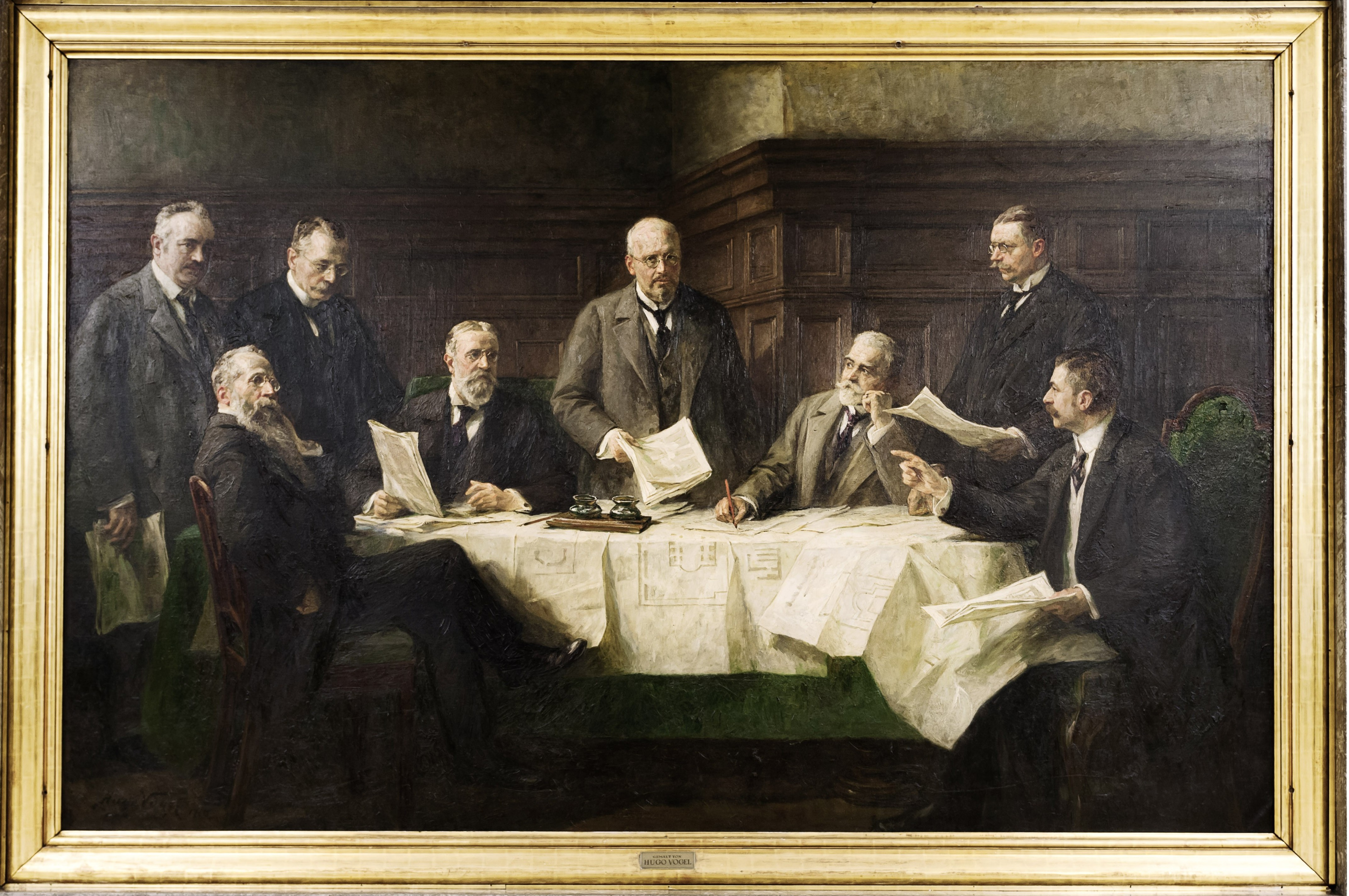 "The first executive committee"; painting by Hugo Vogel, Deutsche Nationalbibliothek Leipzig